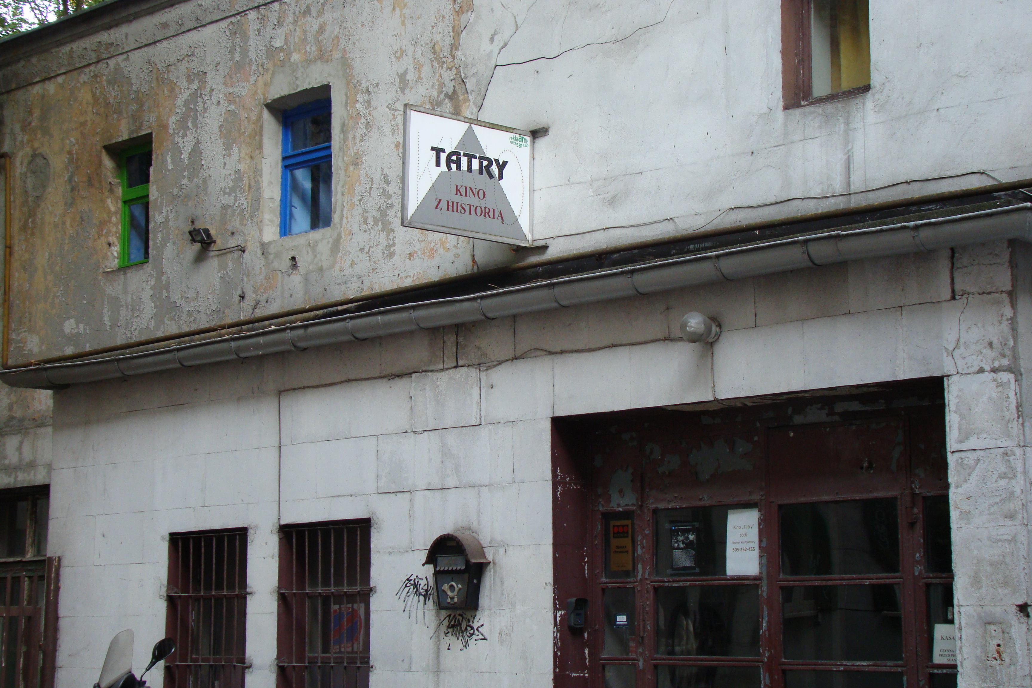 Cinema Tatry in Łódź